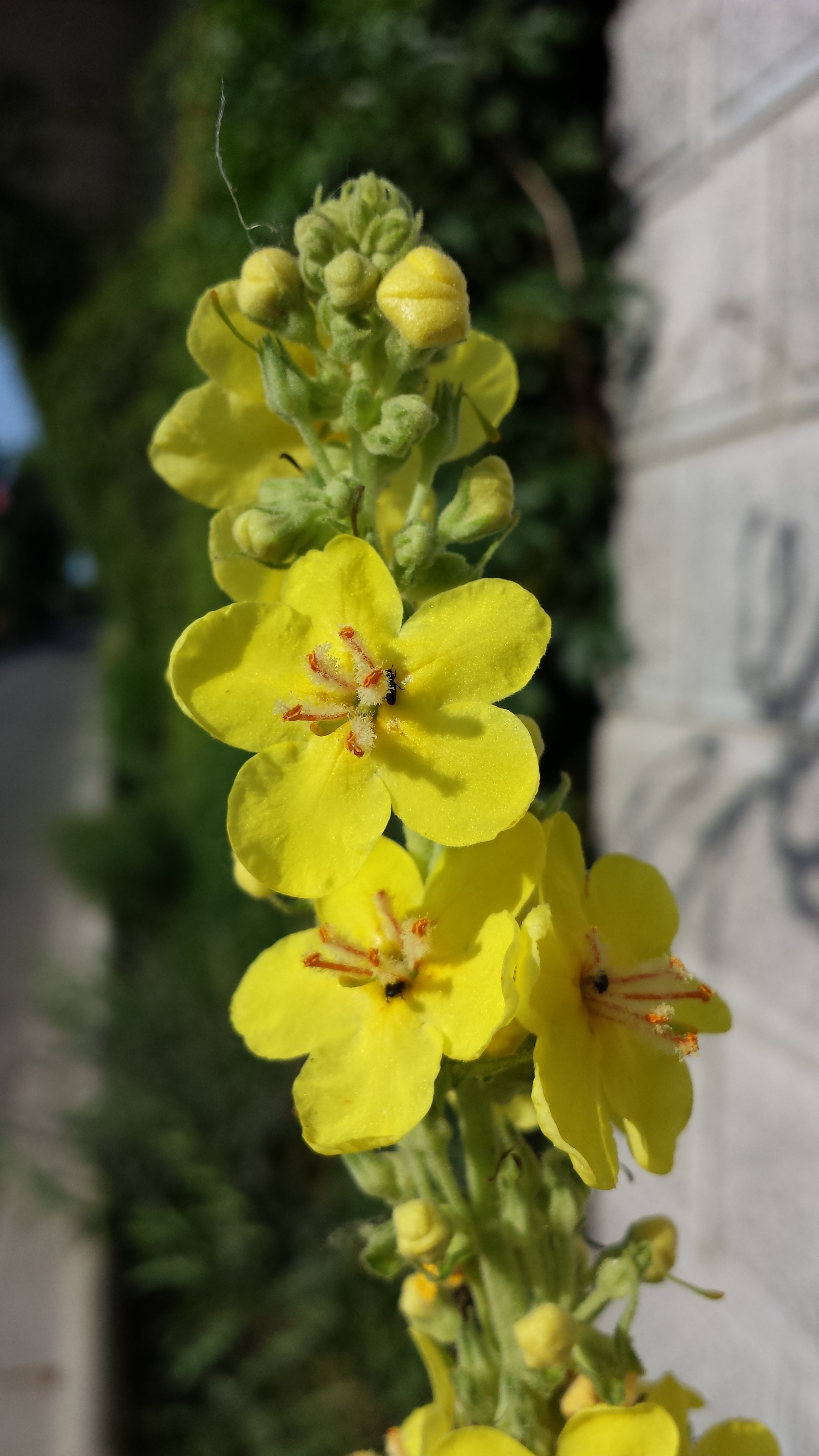 Flowers Taxon: Verbascum speciosum (sensu Fischer et al. EfÖLS 2008) Location: metro viaduct (U6) in Floridsdorf (Am Nordbahndamm), Vienna - ca. 160 m a.s.l. Habitat: ruderal area